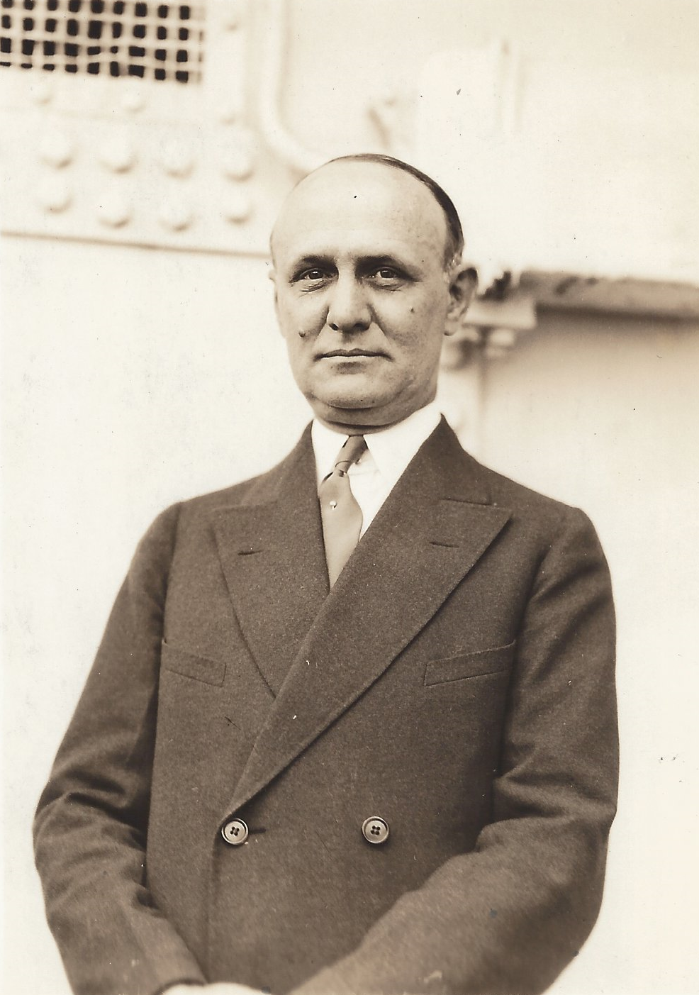 Photo of Paul Wadsworth Chapman.